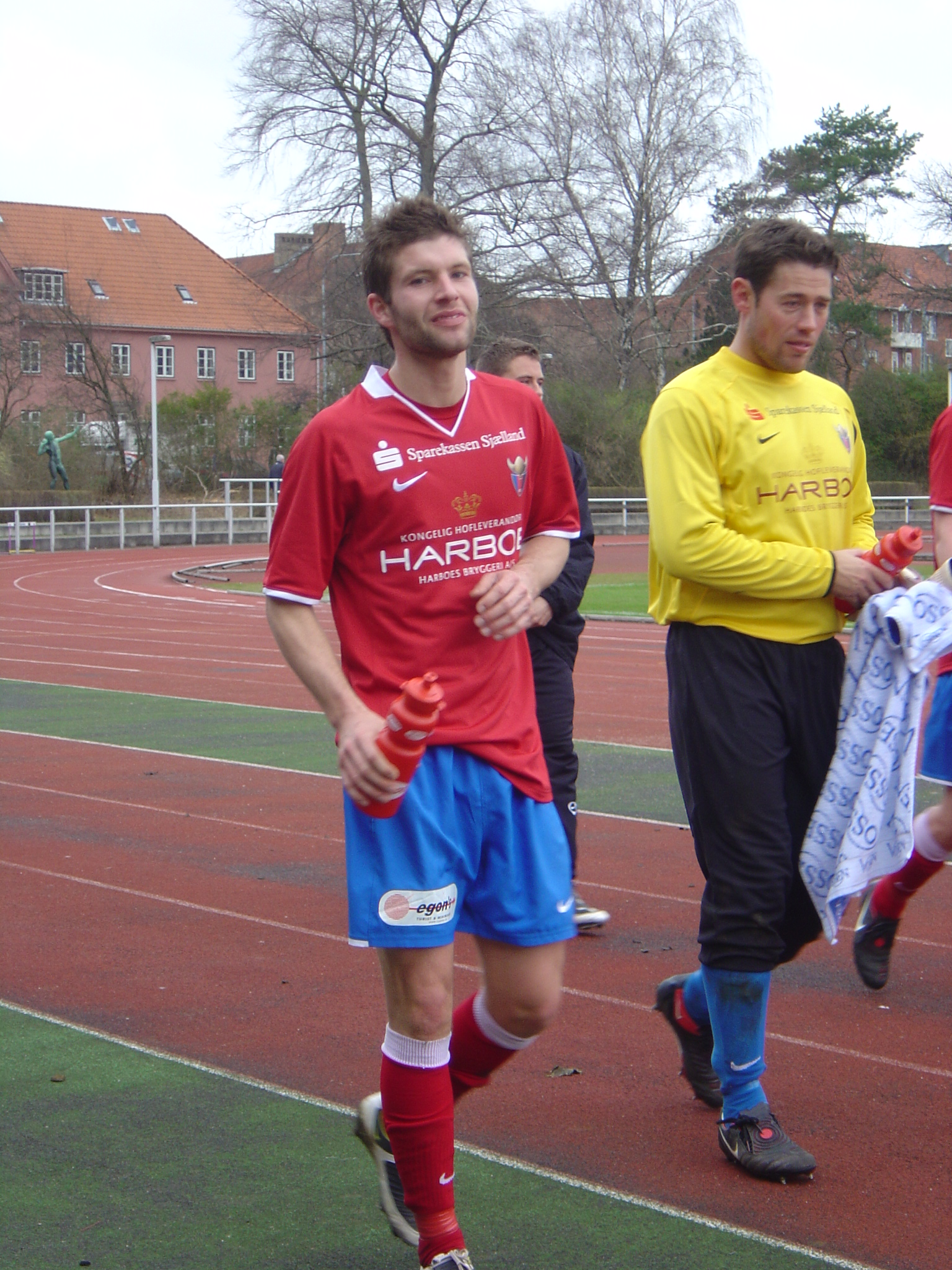 F.C. Copenhagen (II) against FC Vestsjælland — the football players of the away team (FCV) seen here after a Danish 2nd Division East (level 3) match between the two Danish Association football clubs of F.C. Copenhagen (reserve team) and FC Vestsjælland on 5 April 2009 at Frederiksberg Idrætspark. The football players are Anders Laursen and Kenneth Jørgensen.